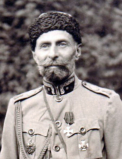 A Georgian general who fought against the Bolsheviks